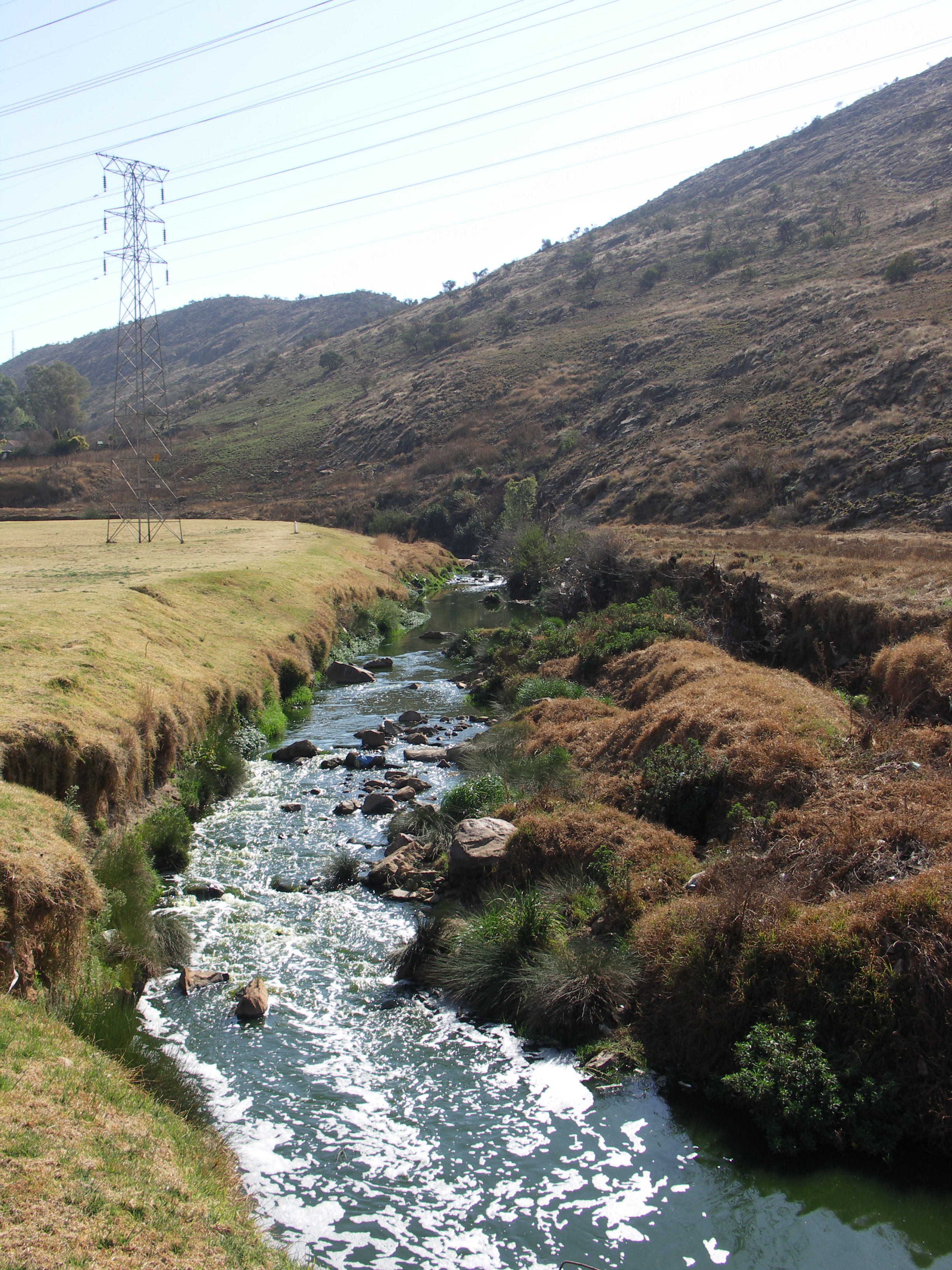 The Jukskei Rivers about 5 km downstream from its source. Photo taken behind Goldfields Kennel Club about 150 meter upstream from Gillooly's Farm. Johannesburg, South Africa.